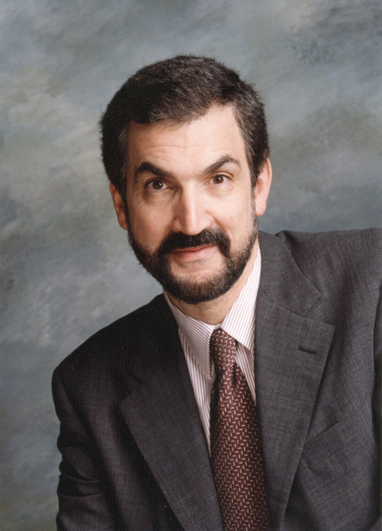 Picture of Daniel Pipes from his website. Also see this picture